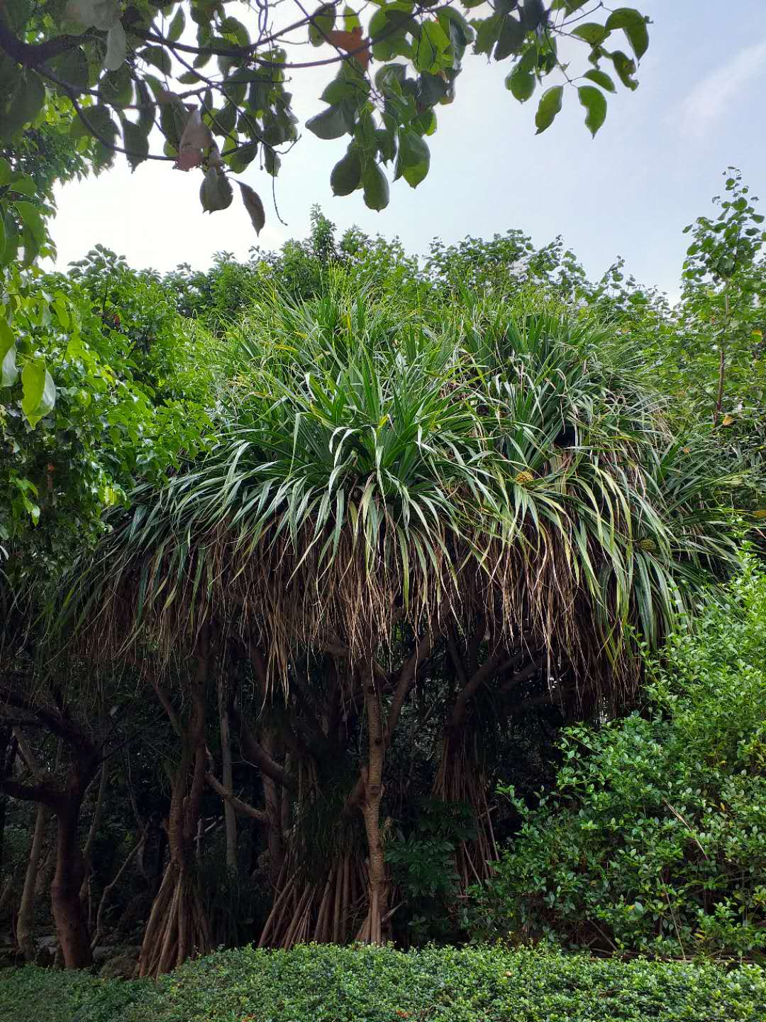 Pandanus tectorius. Aerial roots are highly developed. The leaves clump at the top of the branches. Taichung Botanical Garden, Taiwan.